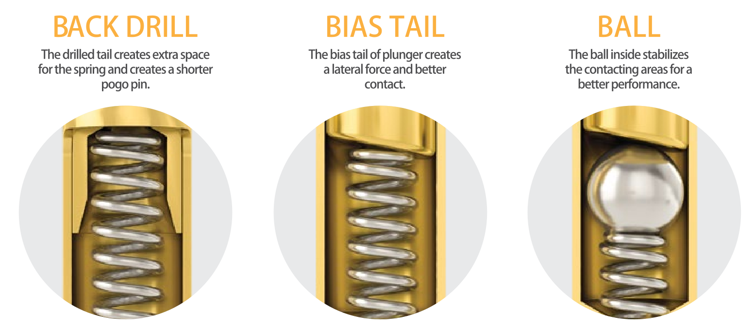 The picture describes the structure of different pogo pin designs